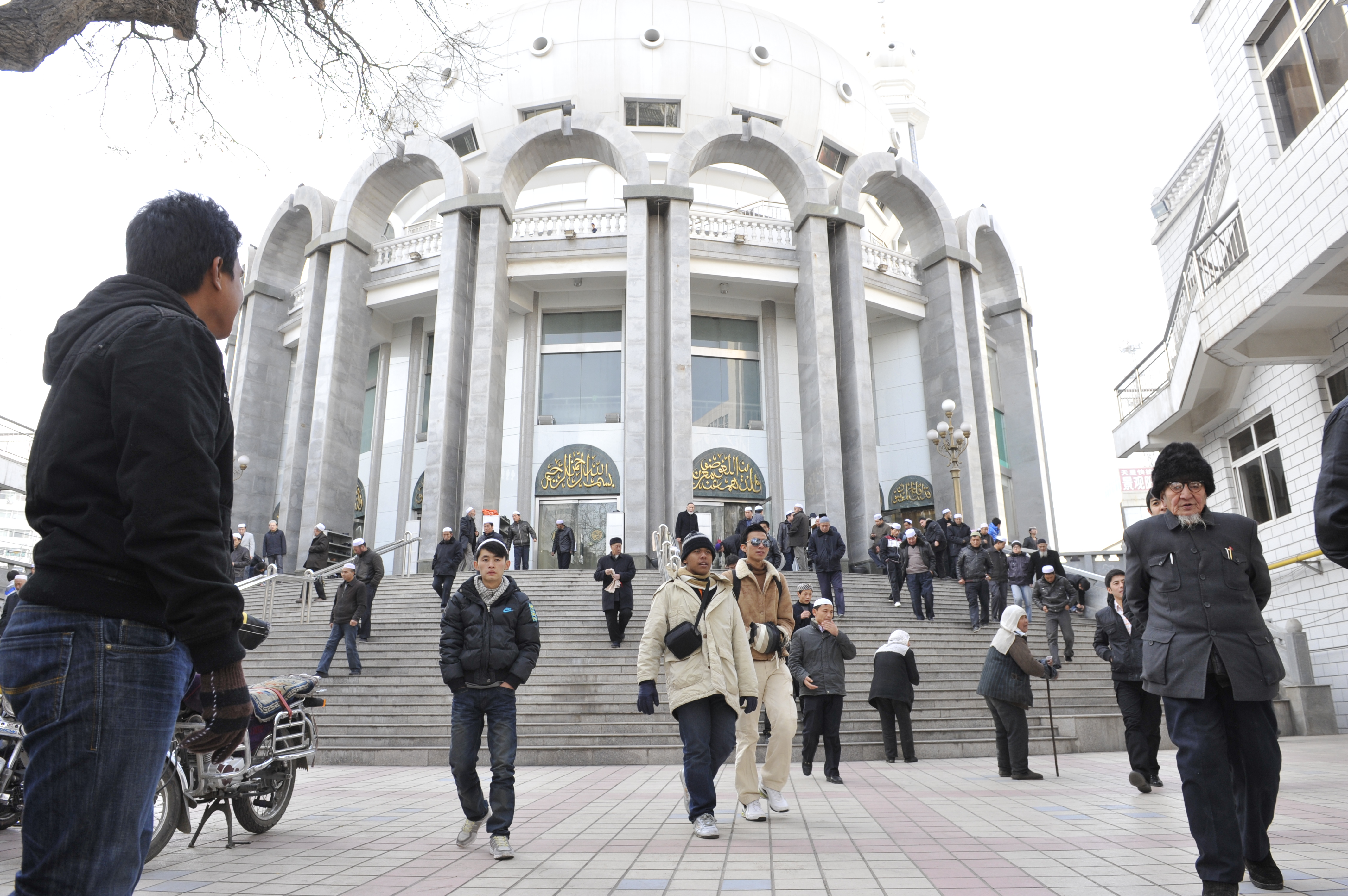 Muslims exiting the Xiguan Mosque after a Friday prayers